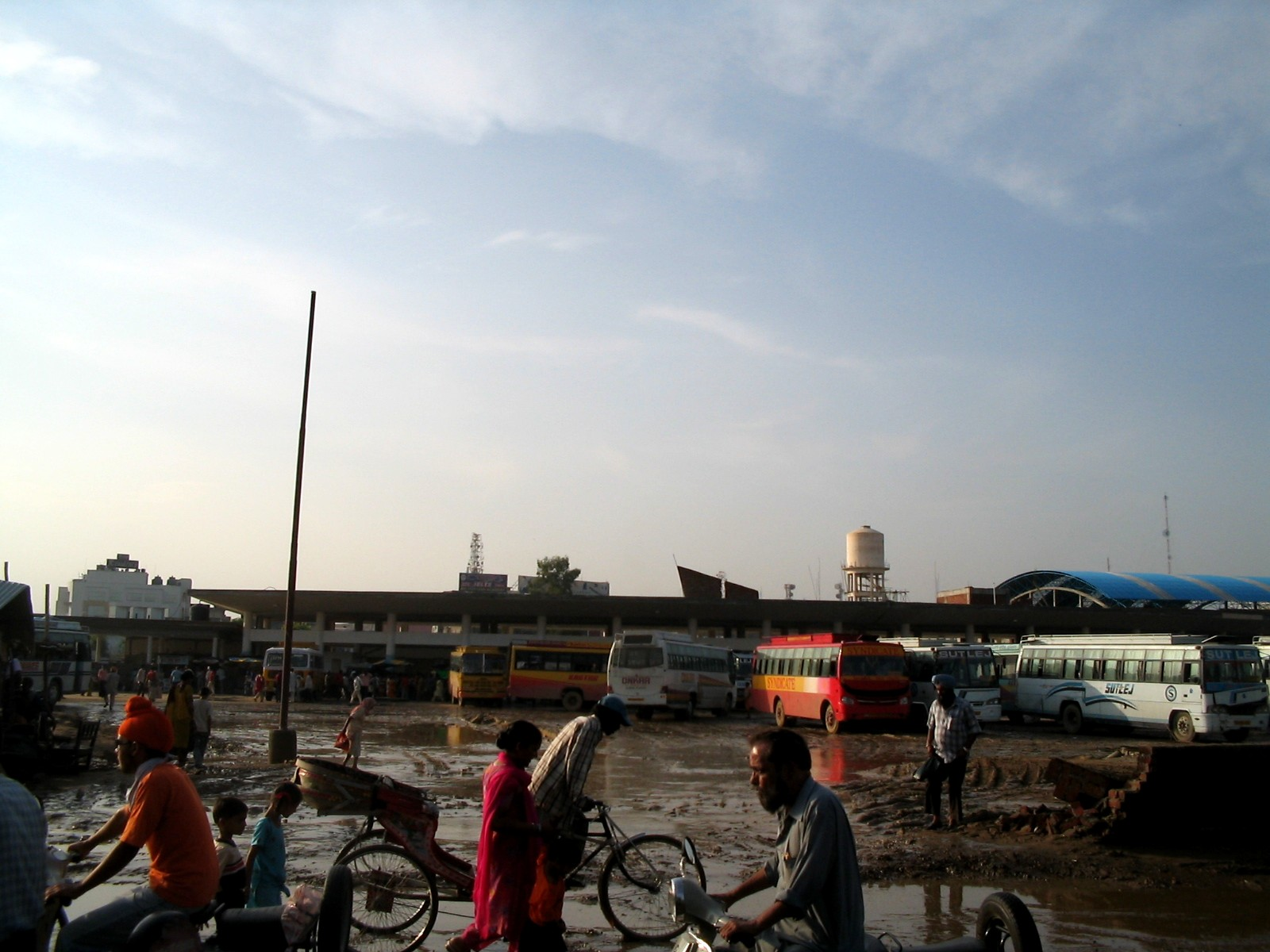 Jalandhar bus-stand. Construction is going on re for upgrading it to the standards of the Amritsar bus-stand. But, this is the typical situation (as of now) whenever there is a shower.